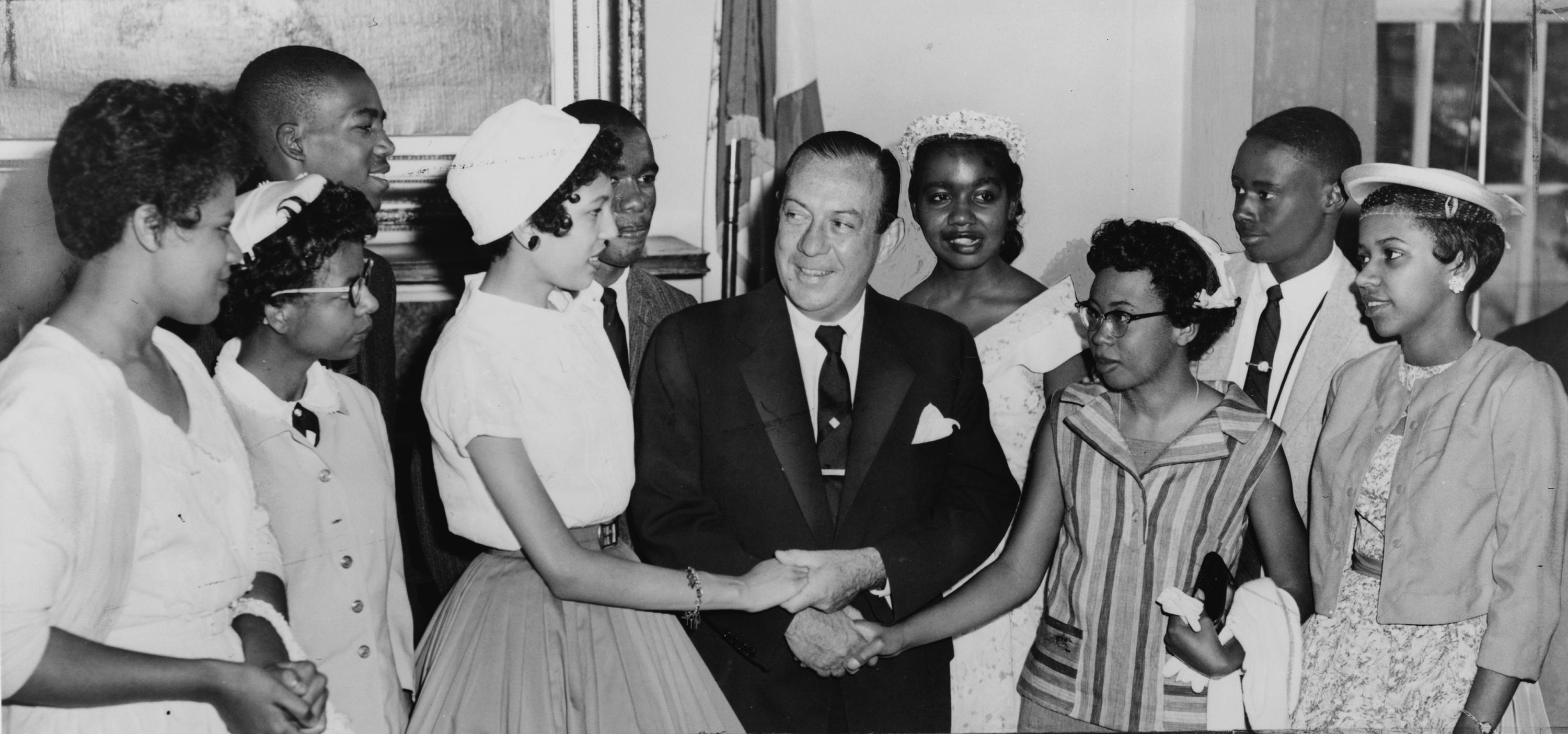 New York City Mayor Robert Wagner greeting the teenagers who integrated Central High School, Little Rock, Arkansas / World Telegram photo by Walter Albertin. Pictured, front row, left to right: Minnijean Brown, Elizabeth Eckford, Carlotta Walls, Mayor Robert Wagner, Thelma Mothershed, Gloria Ray; back row, left to right: Terrence Roberts, Ernest Green, Melba Pattilo, Jefferson Thomas.